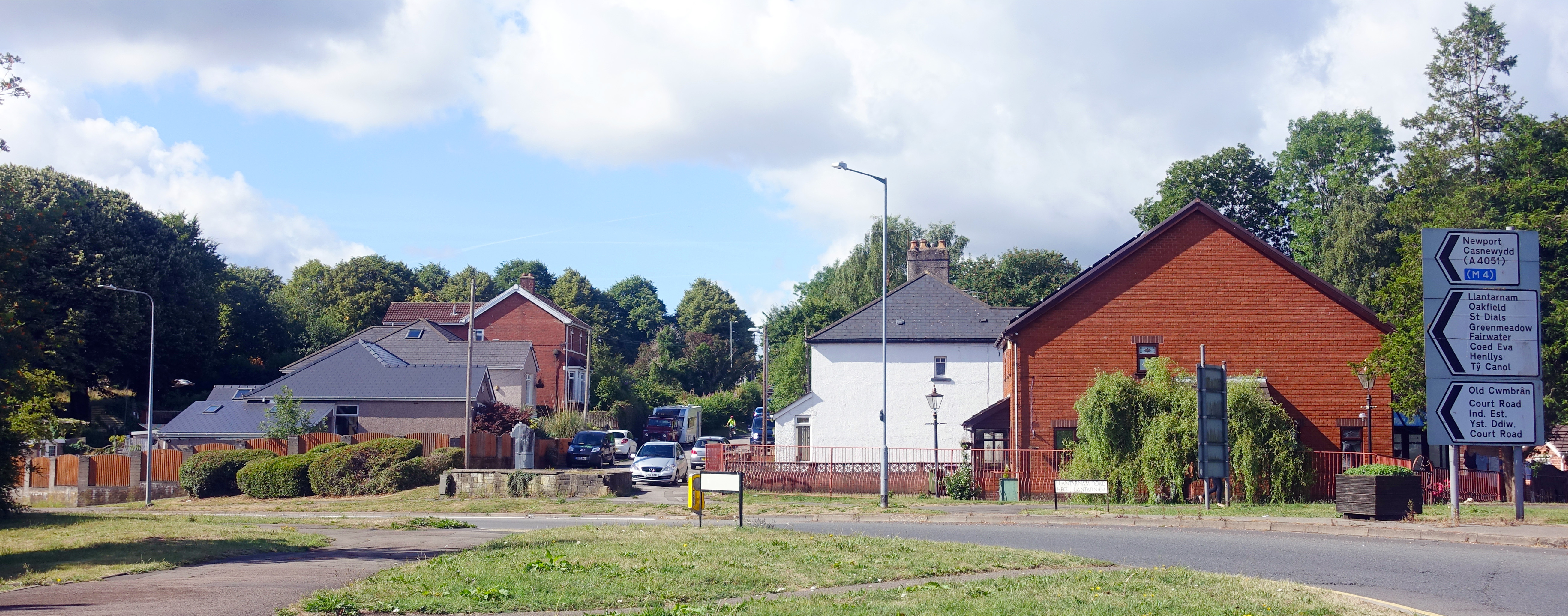 Cwmbran.